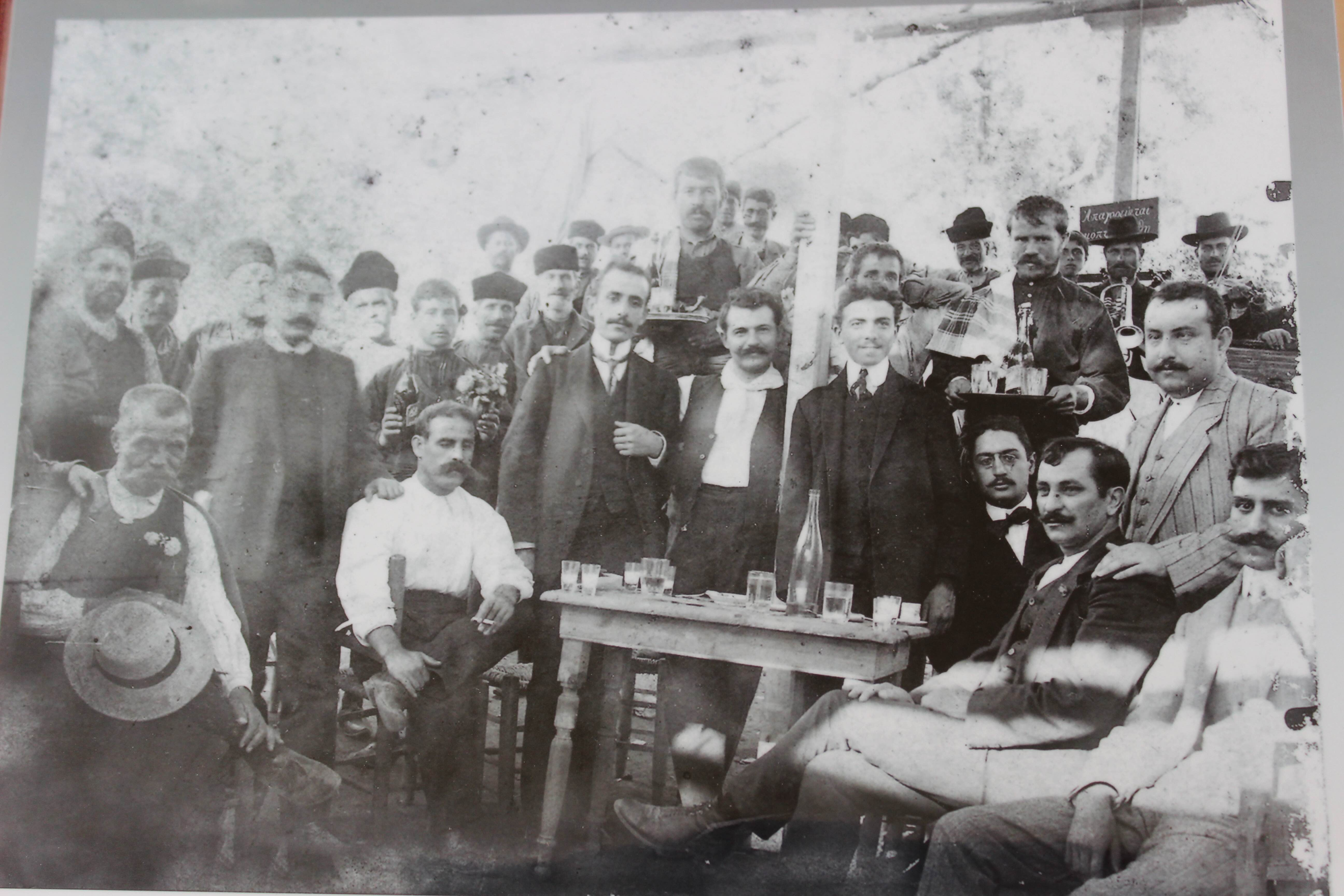 Komitato, Liberation of Lesvos in 1912